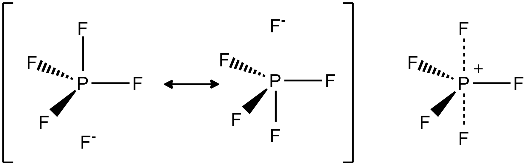 pentacoordinated phosphorous compounds adapted from Gillespie, R. J. and B. Silvi. The Octet Rule and Hypervalence: Two Misundersood Concepts. Coordination Chemistry Reviews. 2002, 53: 62, 233-234.